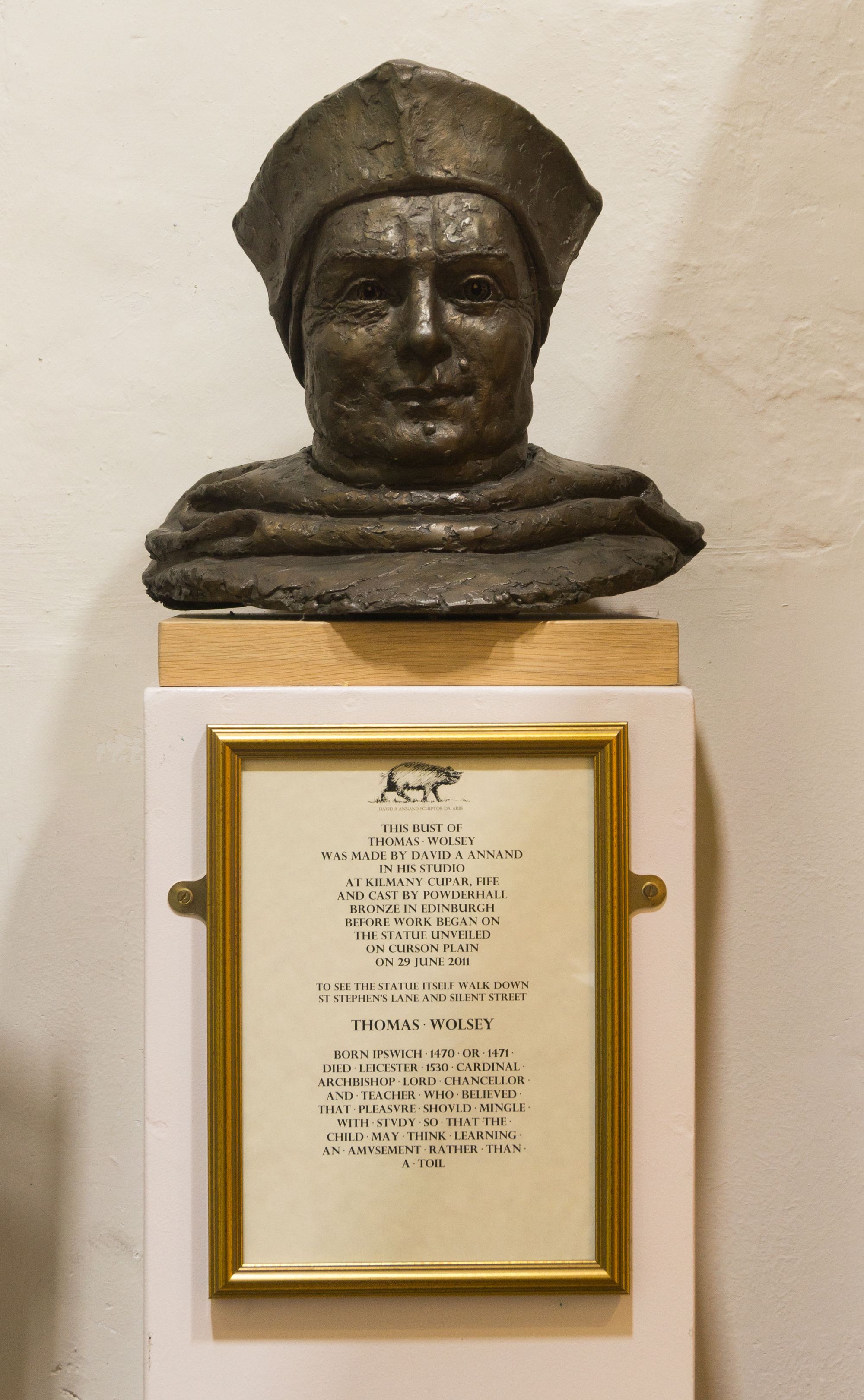 Bust of cardinal Thomas Wolsey kept at St Stephen Church - Ipswich